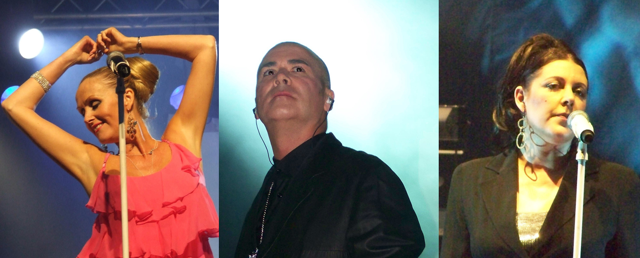 Montage of The Human League principals from Dare Tour 2007 Created from Commons images: File:Philip Oakey 2007 St Albans.jpg File:Joanne comons ver.jpg File:Suecommons1.jpg